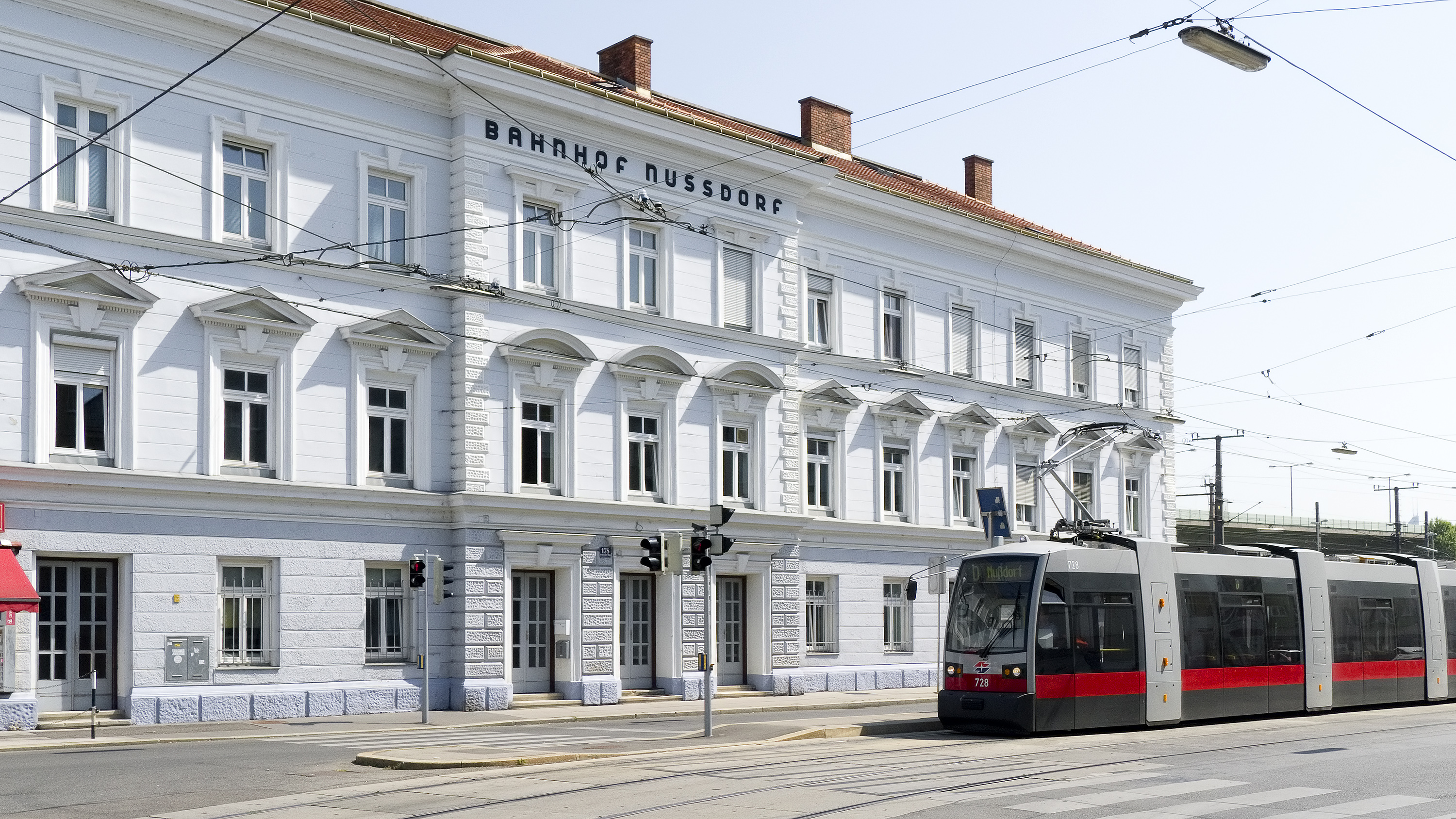 Tram Line D, Station Nussdorf, Vienna